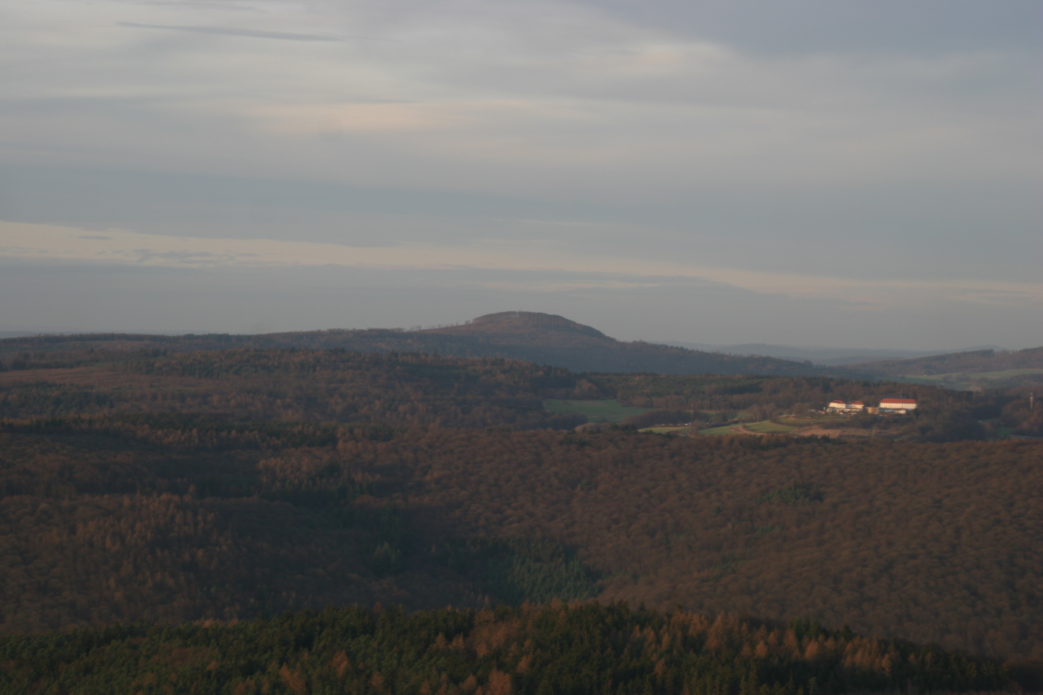 View from Dreistelzberg near Bad Brückenau to Große Haube